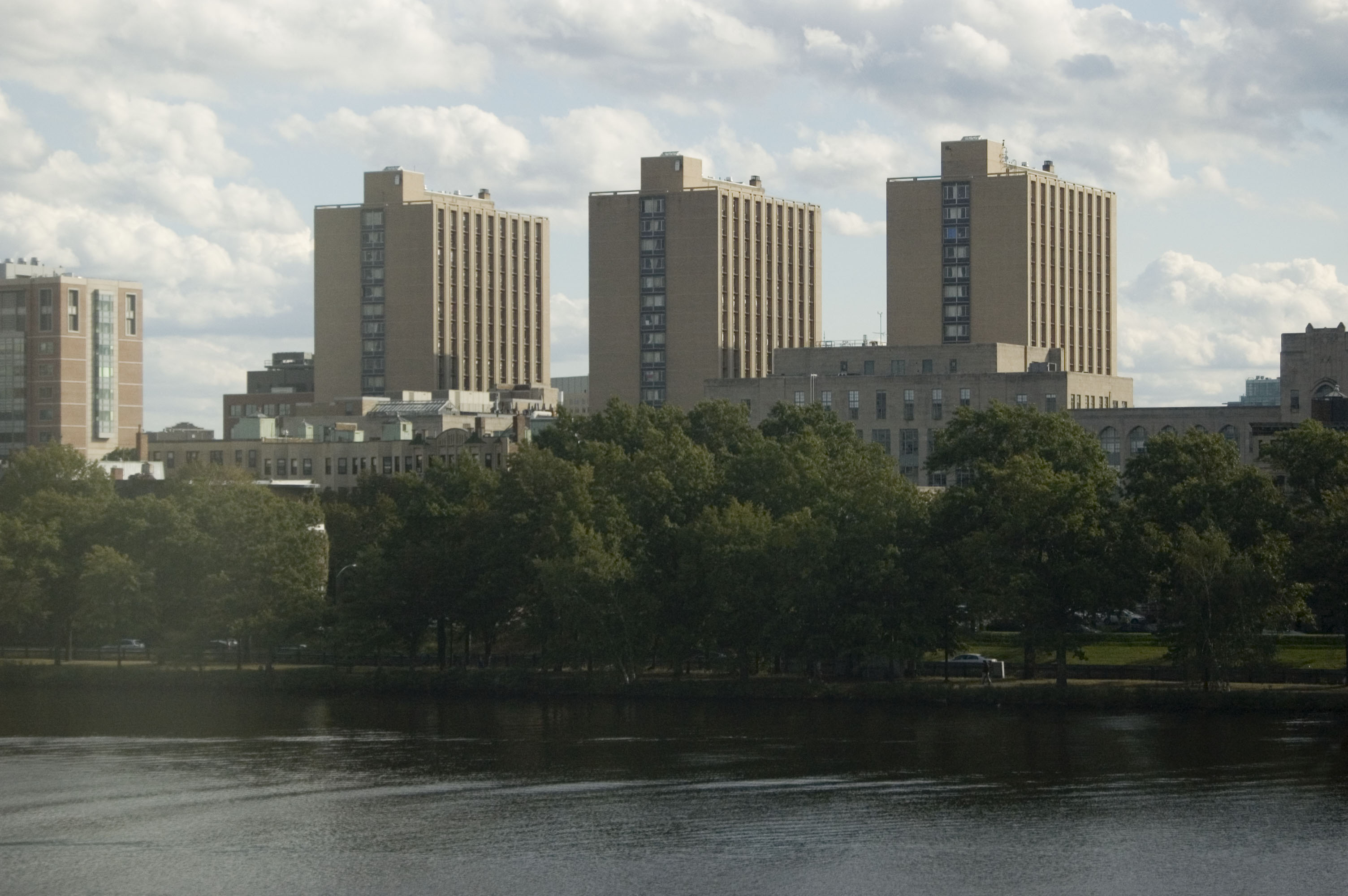 Warren Towers viewed from the Cambridge side of the Charles River